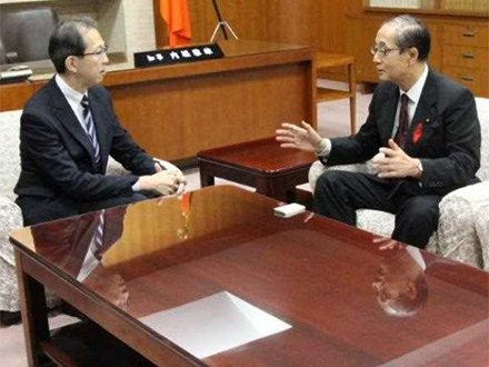 Yoshiaki Harada, Minister of the Environment, talked with Masao Uchibori, Governor of Fukushima Prefecture, at the Fukushima Prefectural Government Building in Fukushima City, Fukushima Prefecture on October 3, 2018.